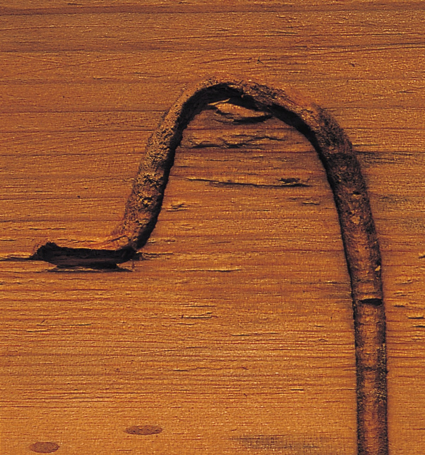 Tube of the Sirex Woodwasp (Sirex noctilio)